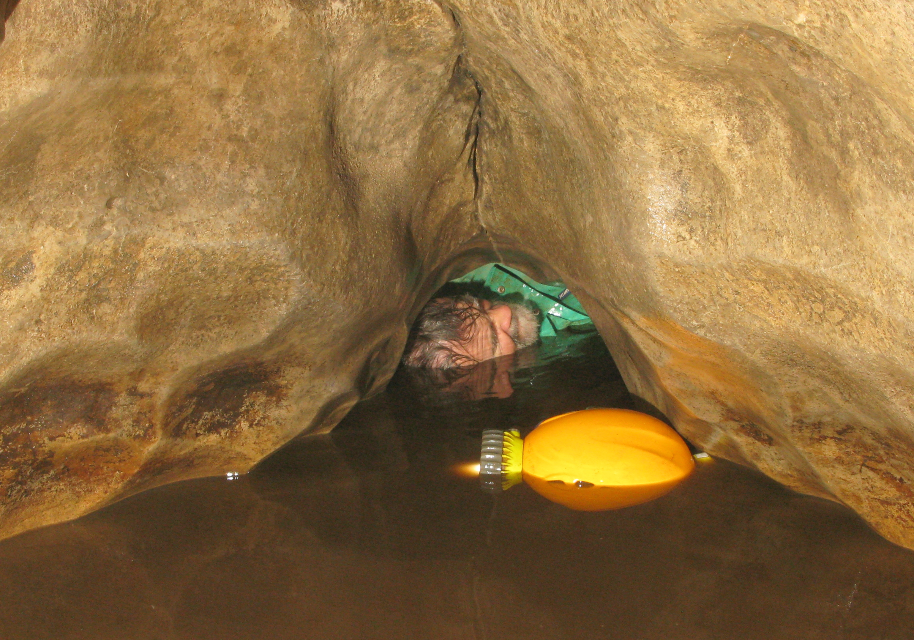 Tony Brown, Northern Boggarts, negotiating the Portcullis duck in Disappointment Pot, one of the many entrances to the Gaping Gill system